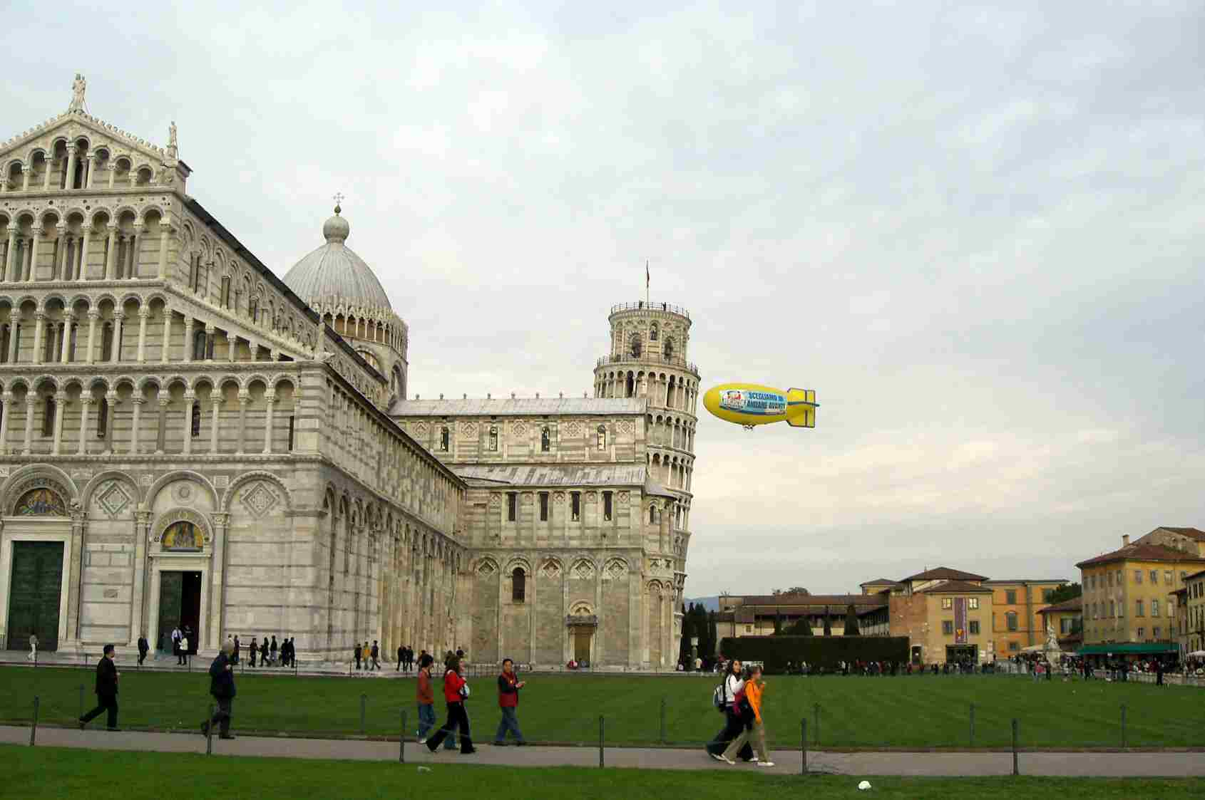 In Italy the political campaign is heating up, elections are in three days, and the candidates from the left and right take last minute desperate measures to convince voters.....(Best seen large).